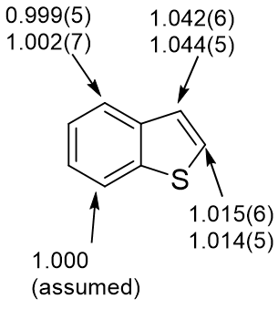 13C KIEs for beta_arylation of benzo_b_thiophenes